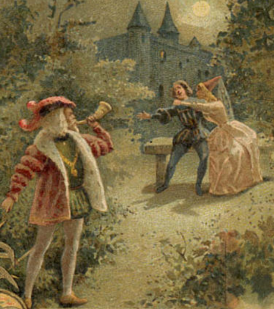 Silva sounds the horn to summon Hernani-act 4